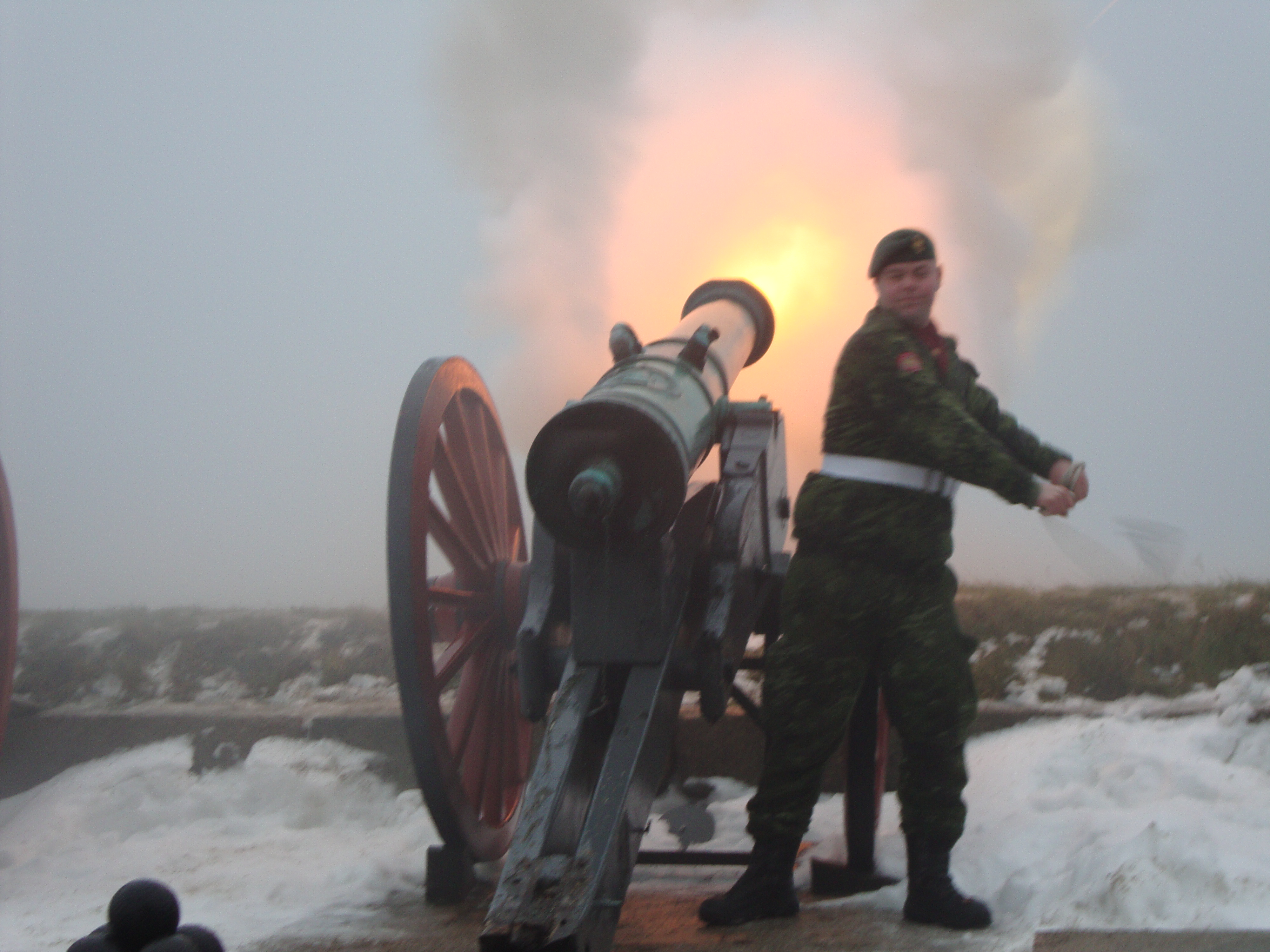 Royal twins of succession in Denmark marked by cannon salute from Kronborg 8th January 2011